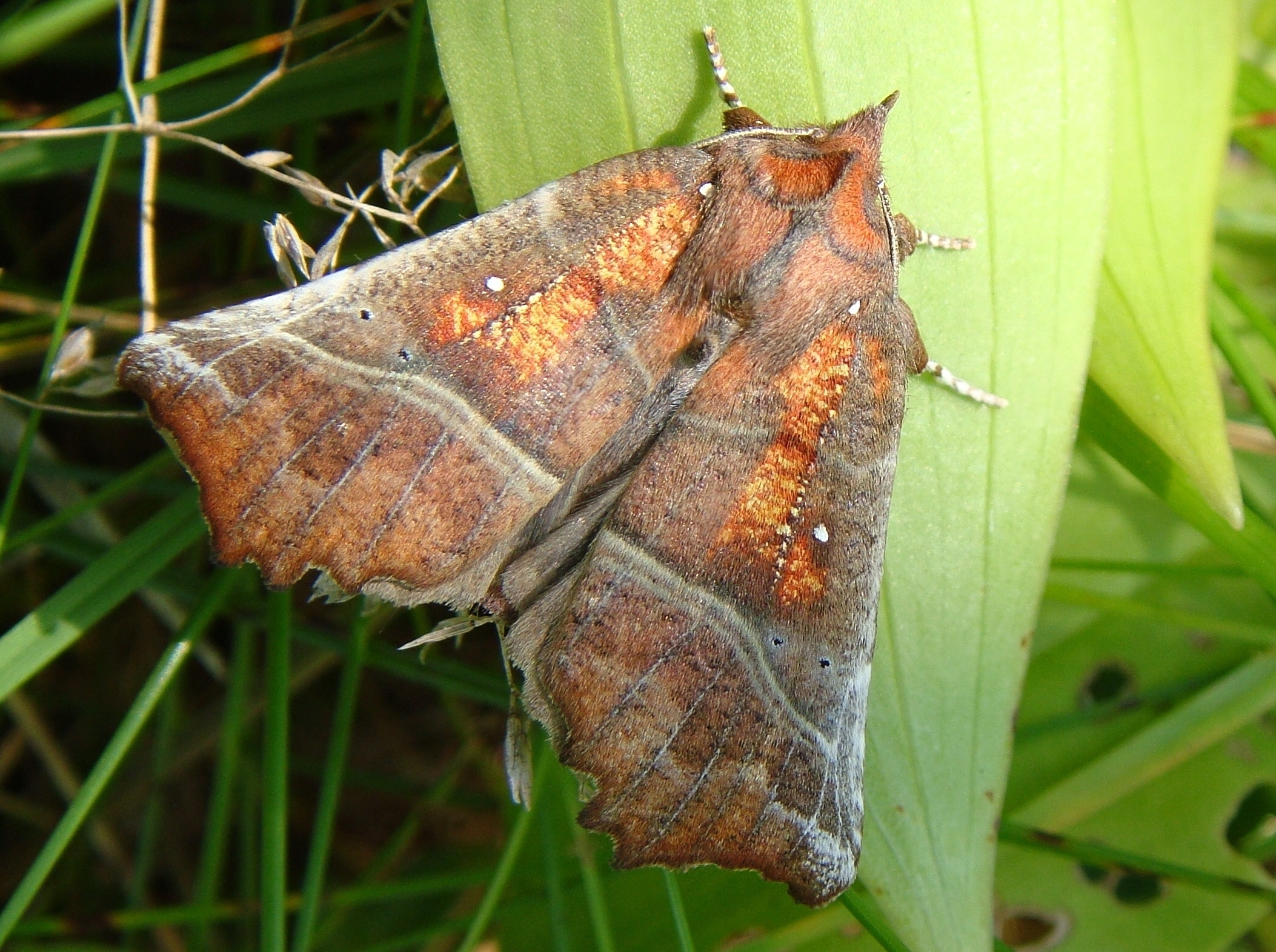 The Herald (Scoliopteryx libatrix), imago. Photographed at Podolsk, Moscow region.